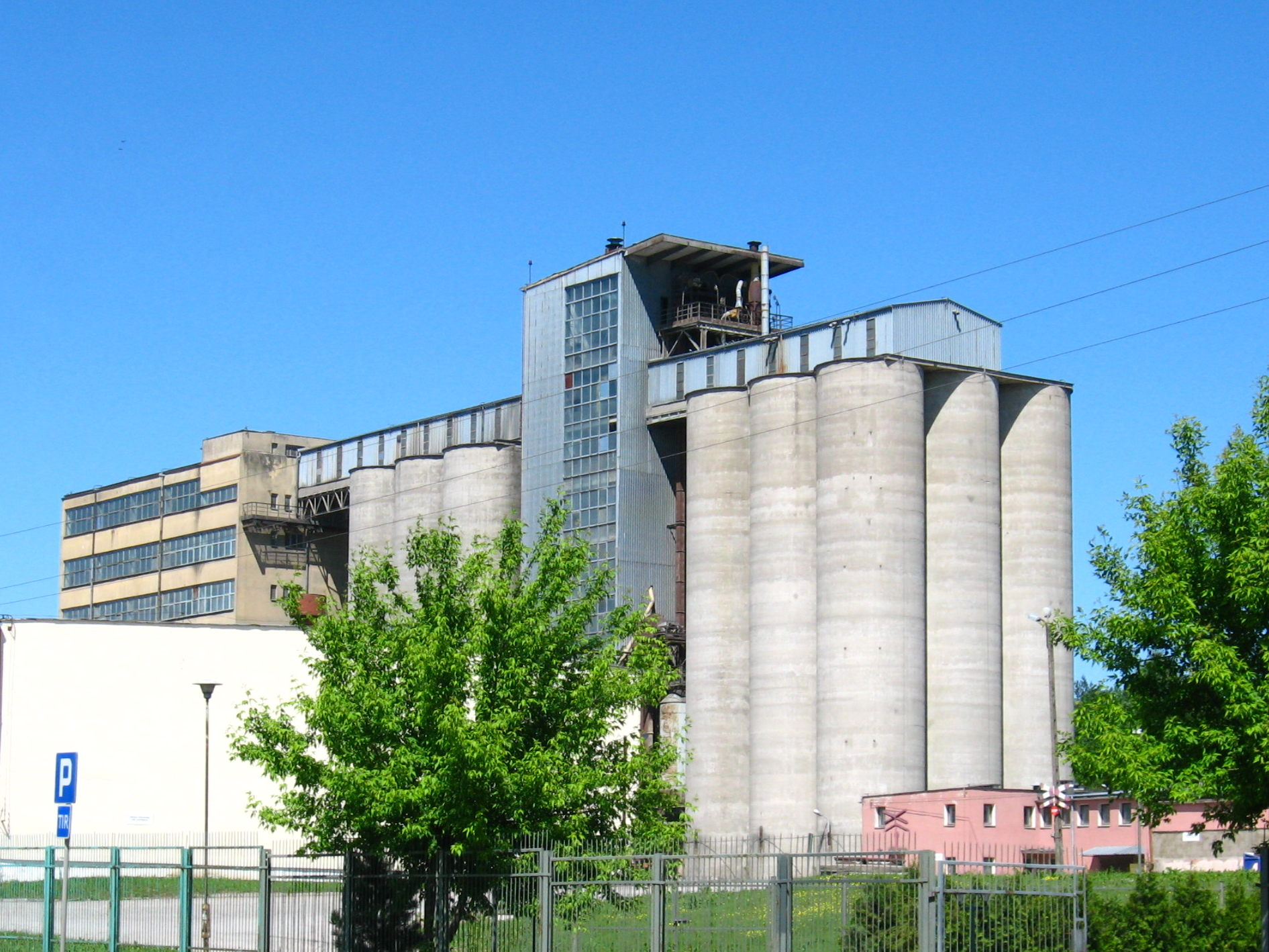 Silos of Podlaskie Zakłady Zbożowe (Podlachian Cereal Industrial Plants), Elewatorska 14, Białystok